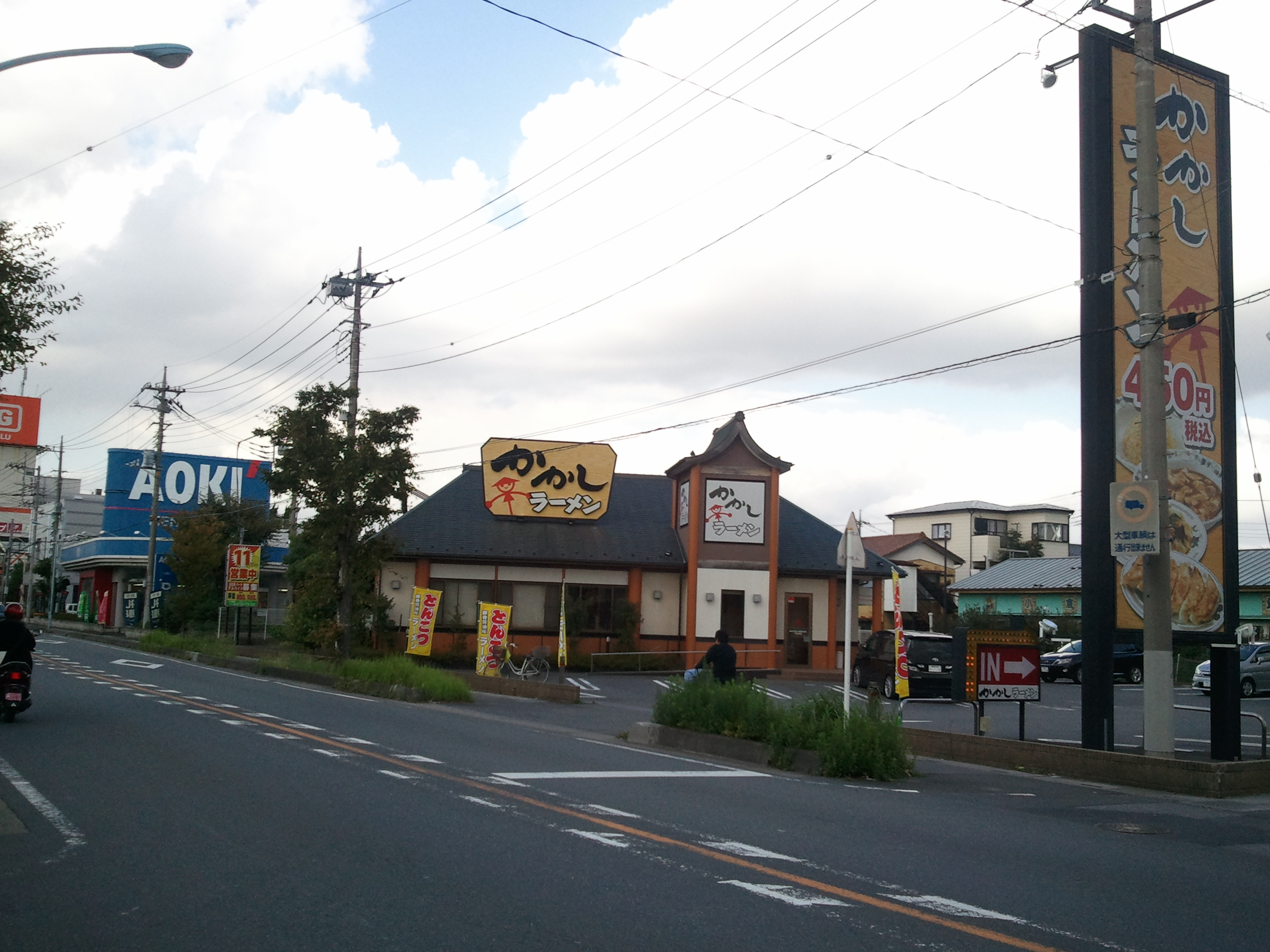 Kakasi-no-Ramen Yashio